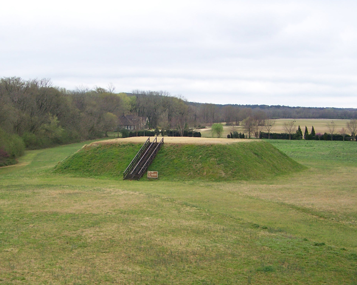 A photo of Mound C at Etowah Mounds as seen from Mound B. Site of the discovery of the Etowah plates.